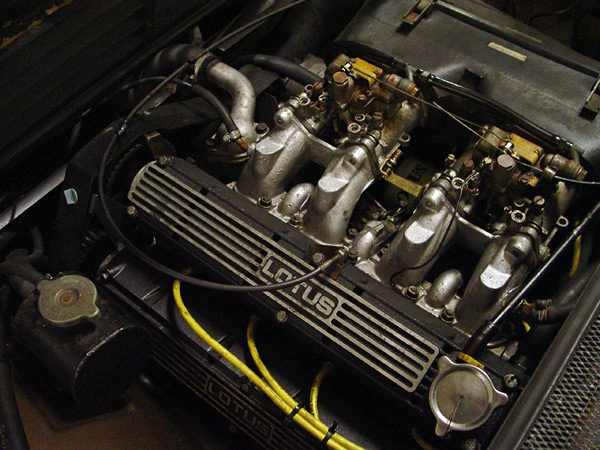 1981 Lotus Type 83 Elite engine Lotus 912